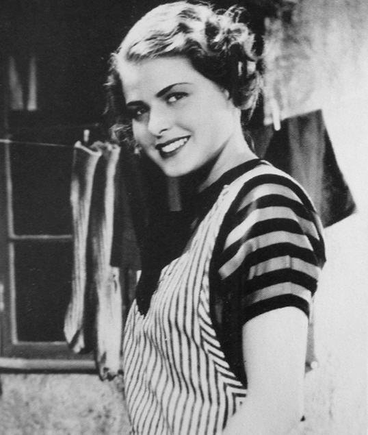 Photo in first film Munkbrogreven (The Count of Monk's Bridge) 1934.